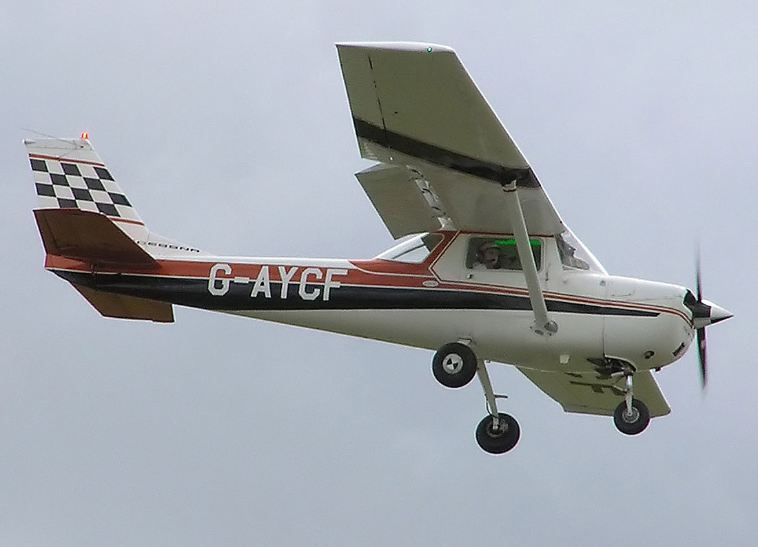 1970 Cessna FA150K (G-AYCF) landing at Hullavington airfield, Wiltshire, England. Built 1970. Photographed by Adrian Pingstone in May 2005 and placed in the public domain.